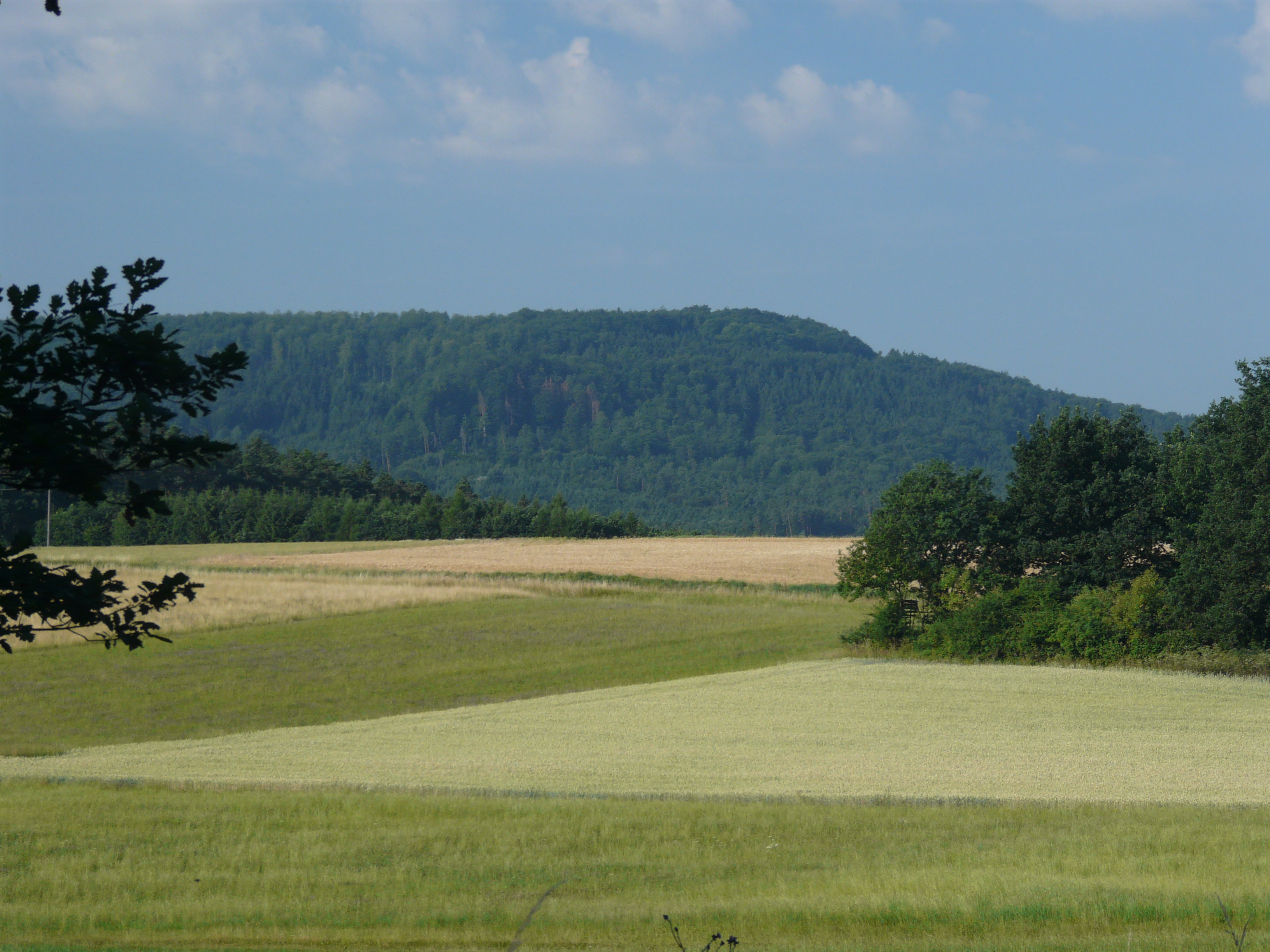 The Nonnenberg in Middle Franconia, Bavaria, Germany.